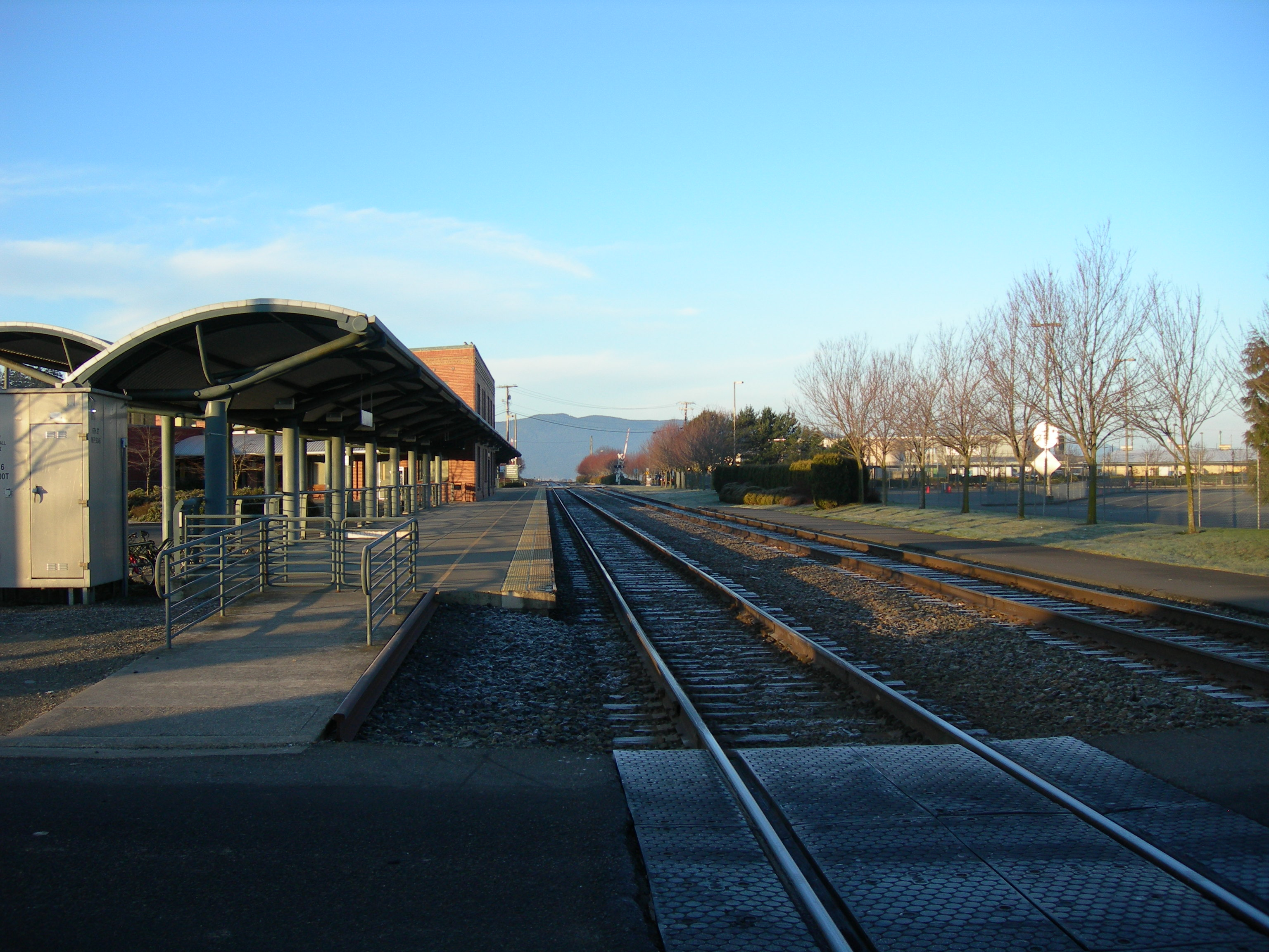 Bellingham Amtrak station looking west